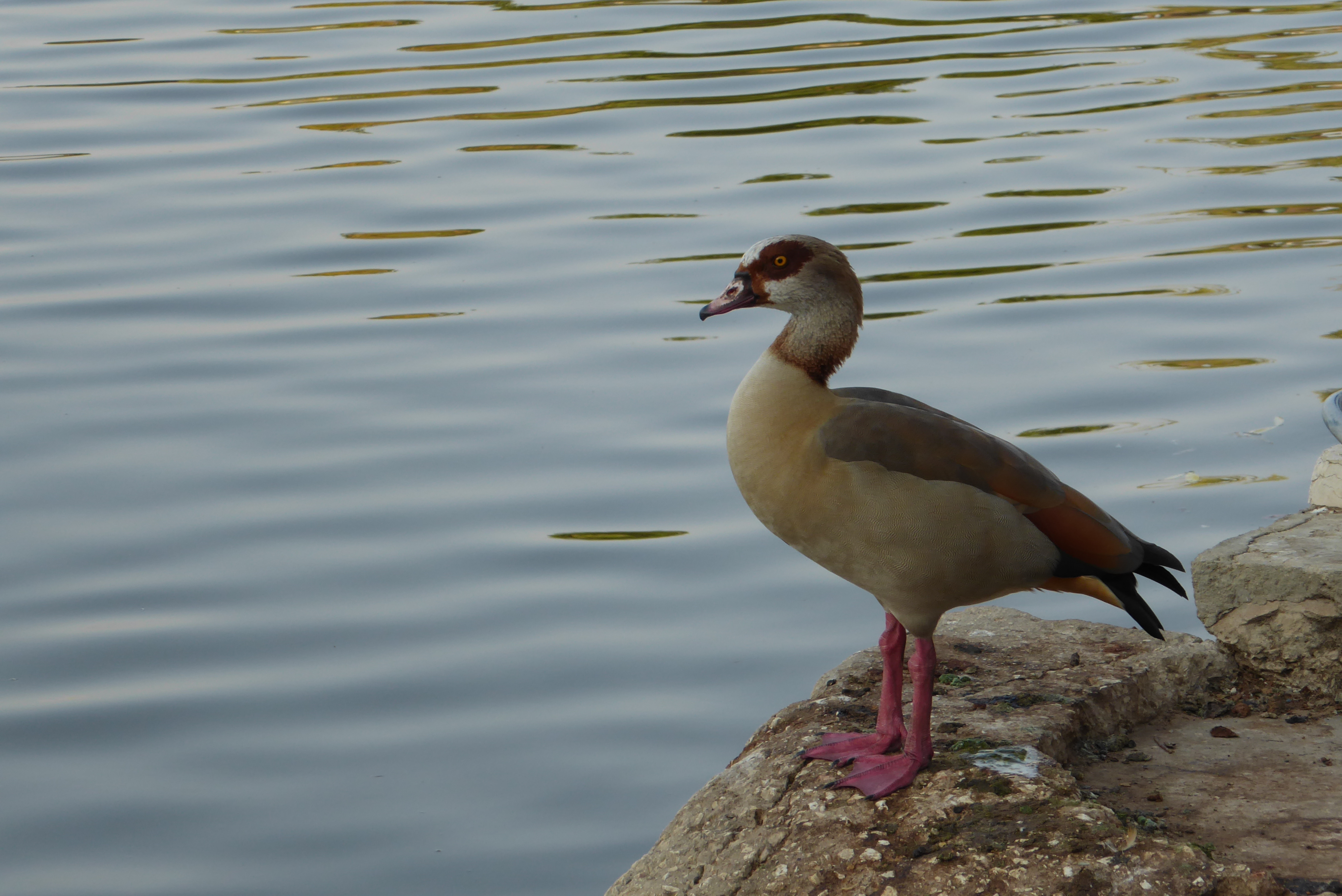 Birds of Ramat Gan, National Park, Ramat Gan